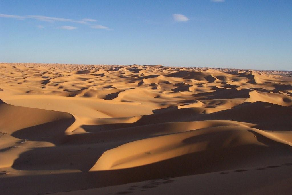 Sahara dunes at sunset. Visit The World Factbook for more information about Algeria.